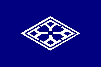 Flag of Yamatokōriyama, Nara